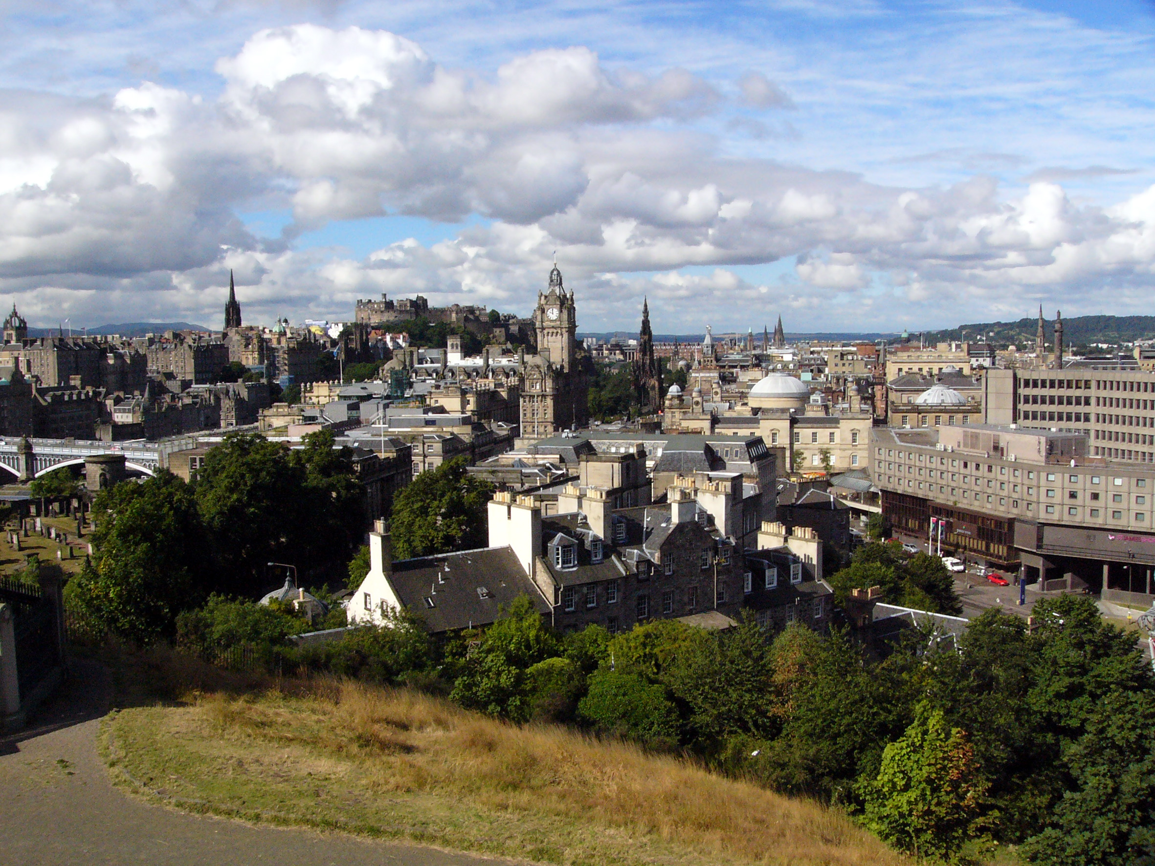 Edinburgh Overview from Calton Hill to Edinburgh Castle.